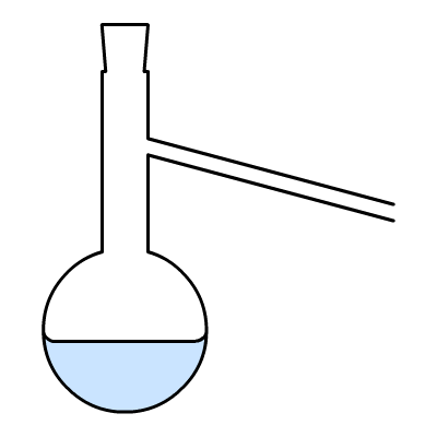 scheme of distillation flask made in Macromedia Flash 5